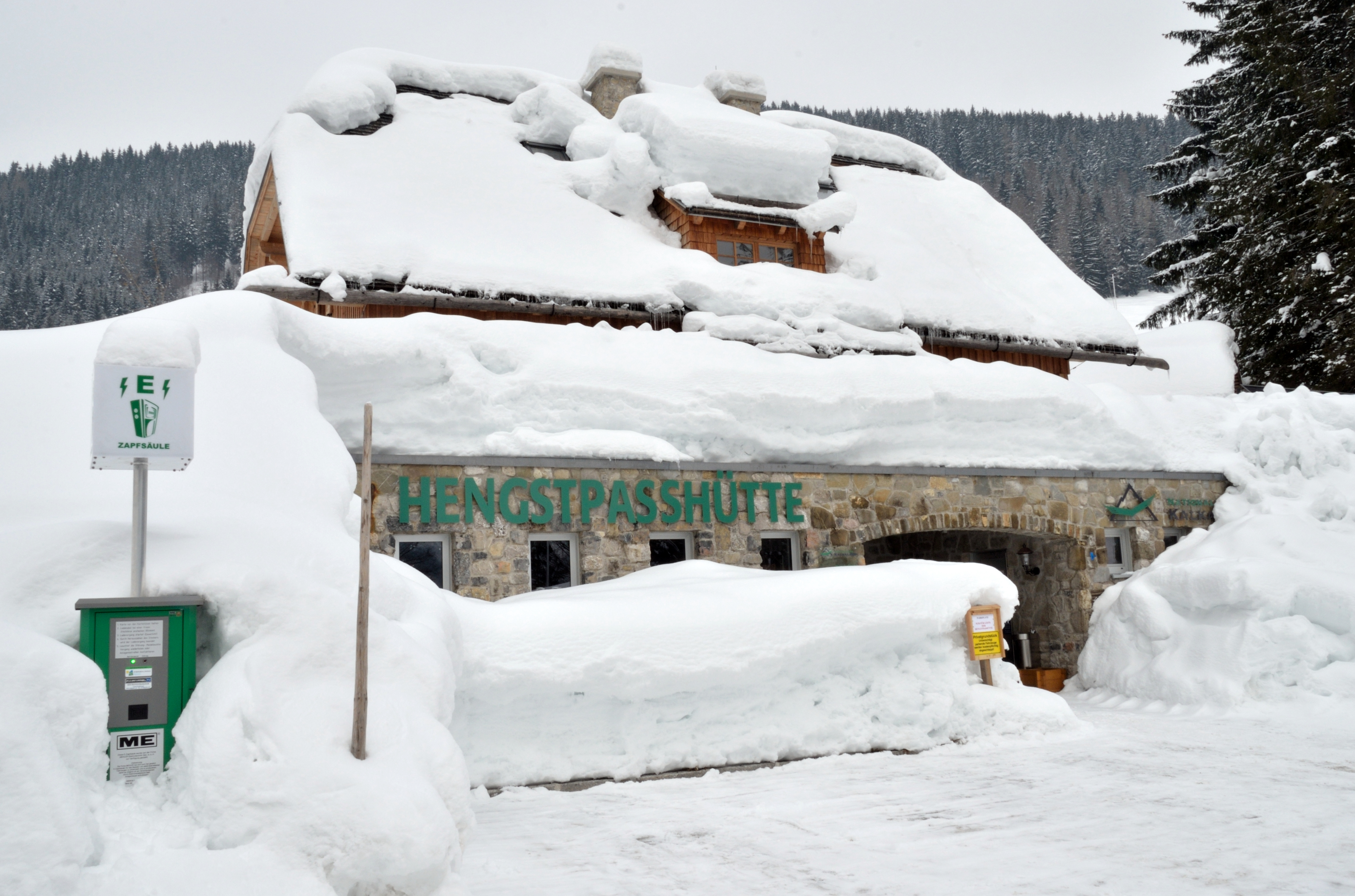 The hut on the Hengstpass in Upper Austria, called Hengstpasshütte, is an unguarded hut in the Nationalpark Kalkalpen. The included shop is open only during summer.